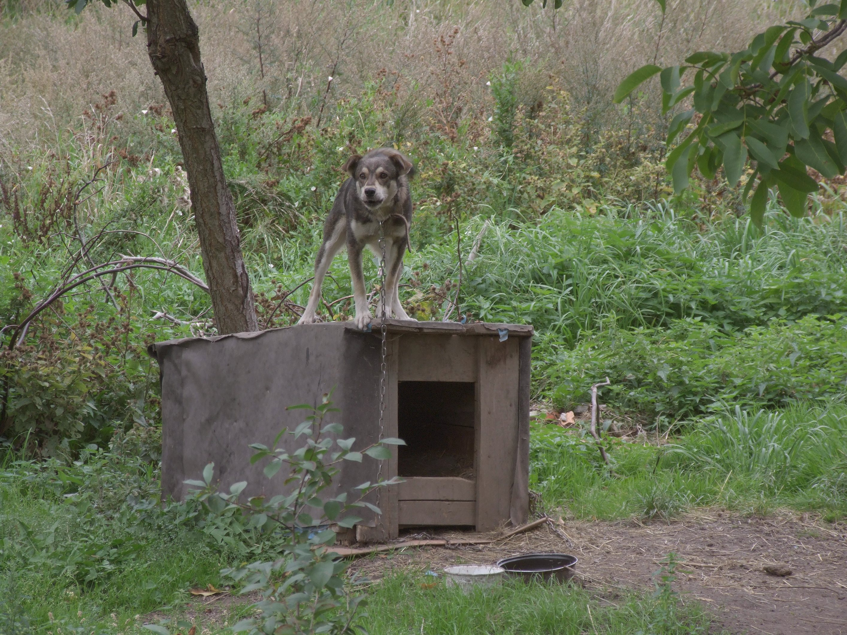 a doghouse in a rural area of Western poland